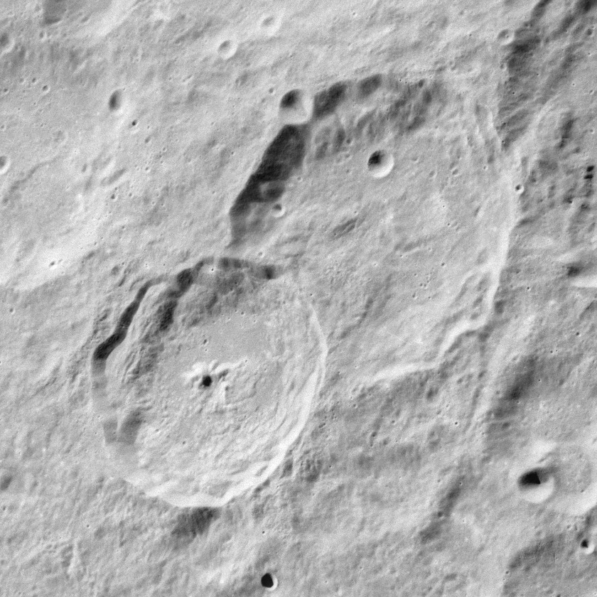 Oblique view of Moiseev crater (lower left) and Moiseev Z crater (upper right), on the far side of the moon. North is in upper right.